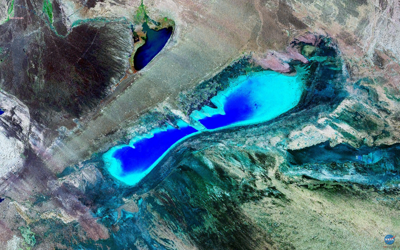 Satellite Image of Lake Manas, Xinjiang, China